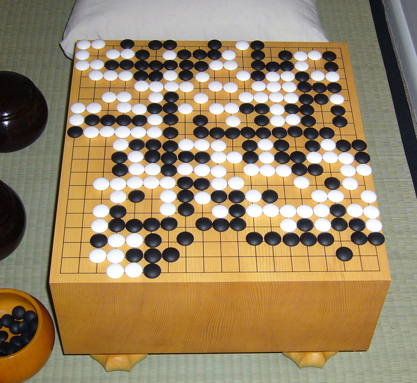 Another view of my floor goban.